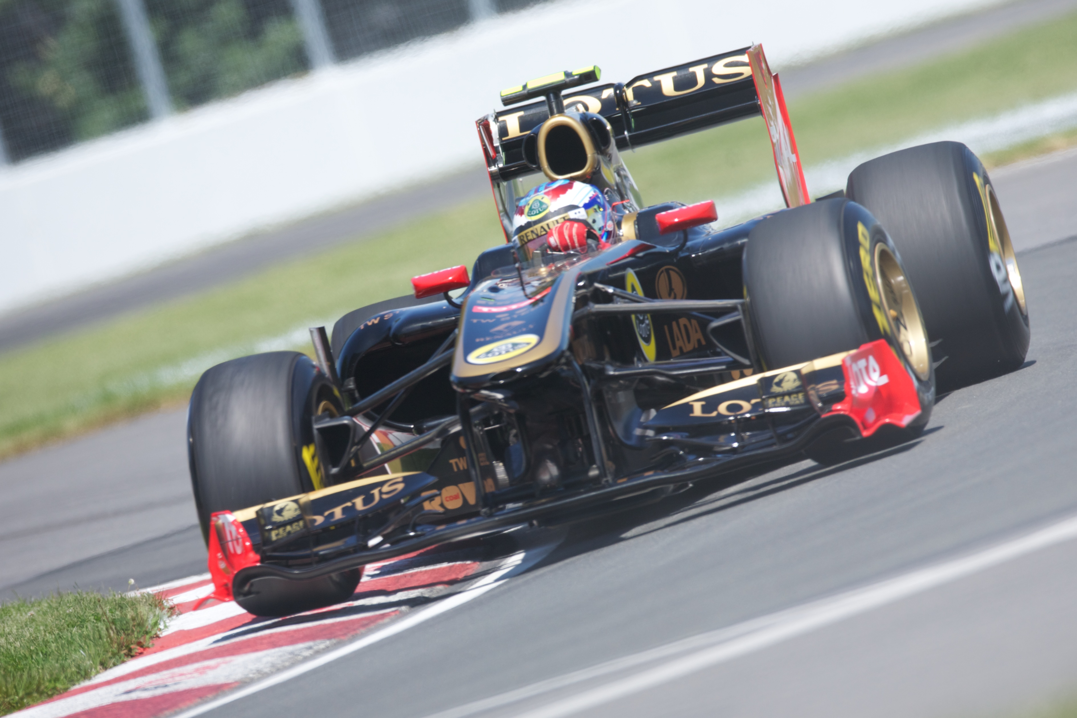 2011 Canadian Grand Prix